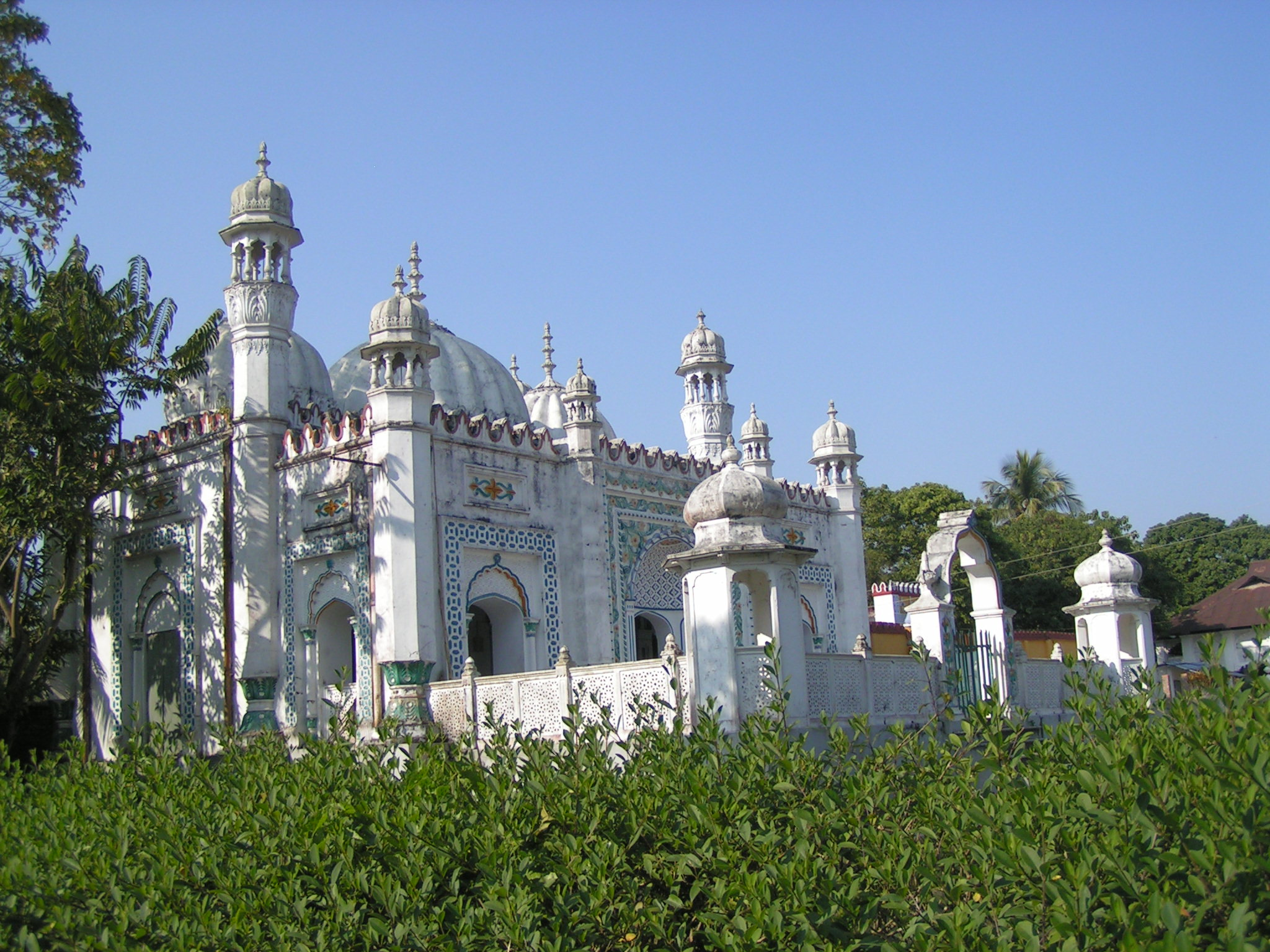 Shia place of worship in Prithimpassa Zamindar Bari